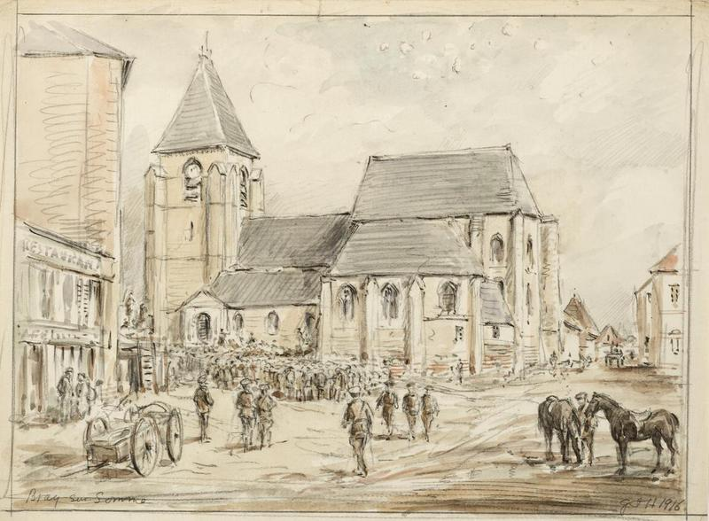 First World War Sketchbook Volume 1 - Bray sur Somme image: a town square with soldiers and a church.